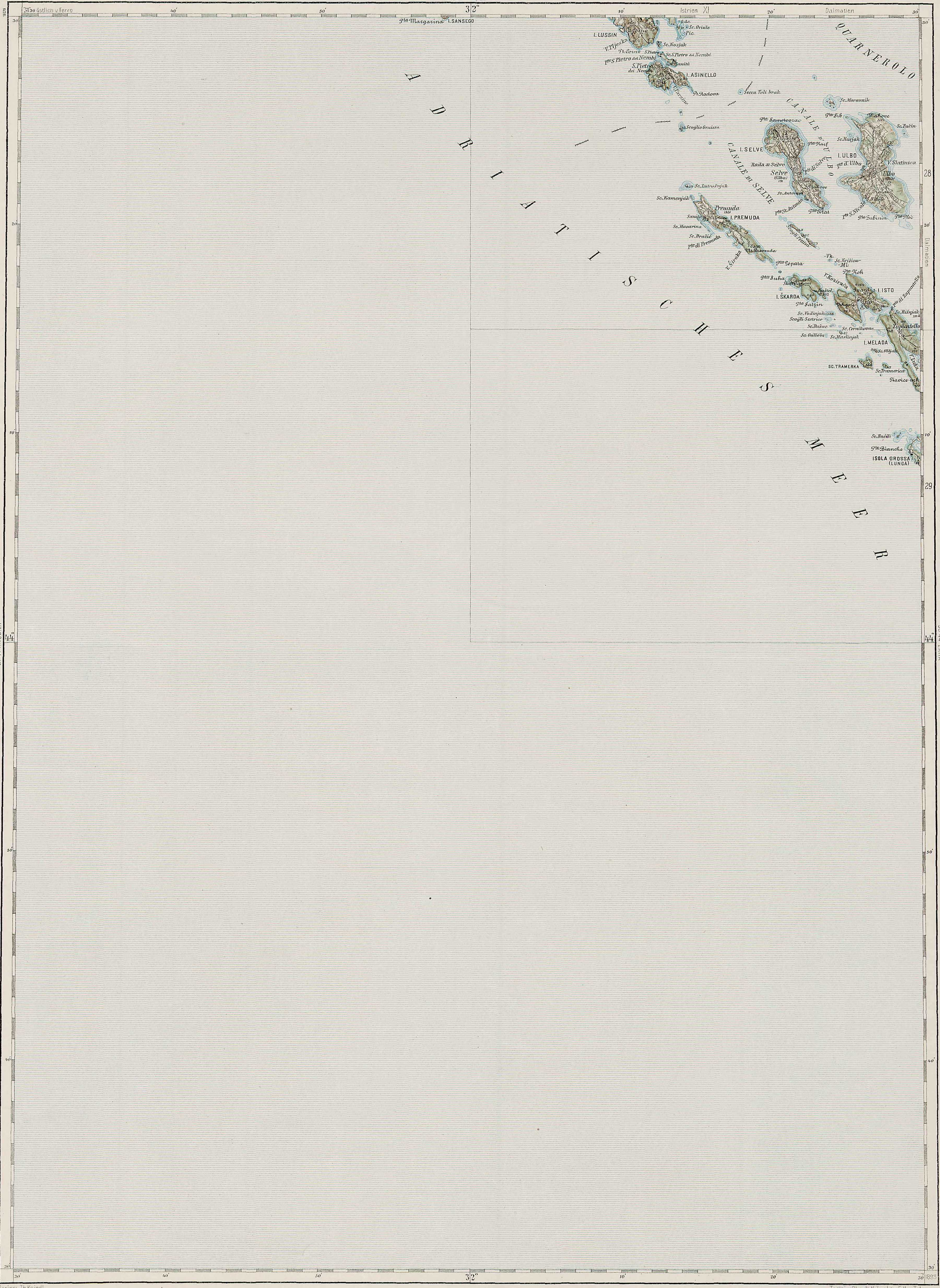 3rd Military Mapping Survey of Austria-Hungary - Insel Selve